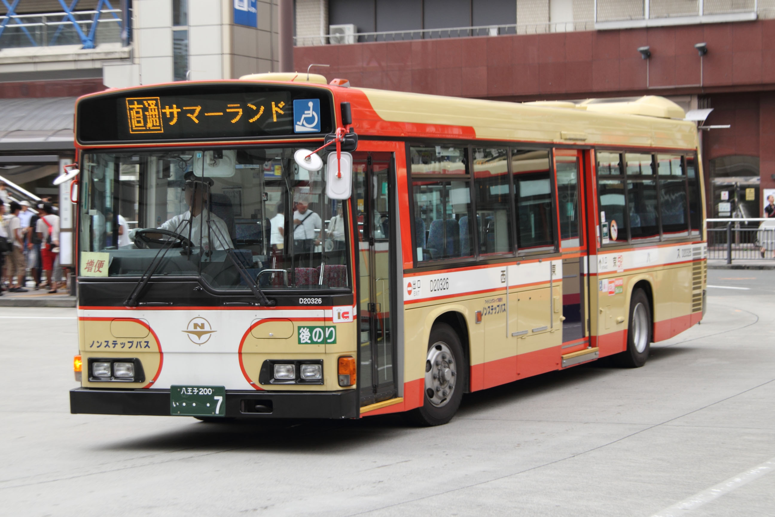 Nishi Tokyo Bus car (direct to Tokyo Summerland) 西東京バスの車両（東京サマーランド直行便）